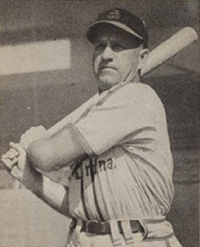 St. Louis Cardinals player Enos Slaughter's 1948 Bowman Gum baseball card. Cropped border from original image.